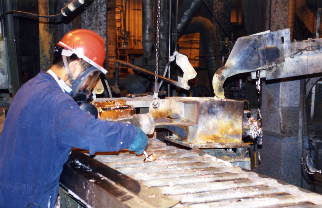 The worker is ladling molten recycled lead into billets in a lead-acid battery recovery facility. Lead is an extremely toxic substance and workers must be protected from its effects. Any manufacturing operation involving lead has the potential for overexposure, and so the elements of a lead program (including provision of work clothes and PPE) are in place here.